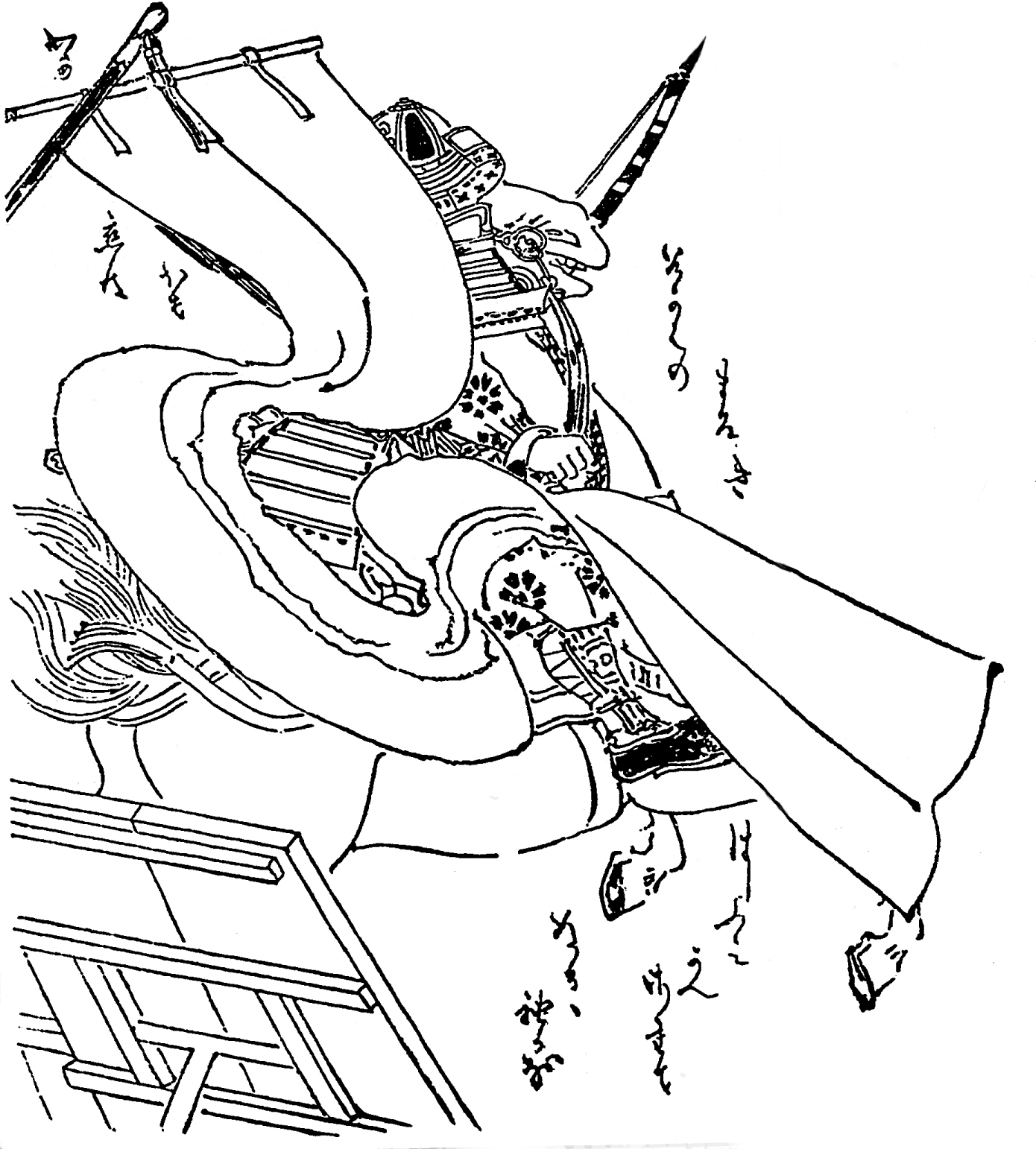 平通盛。平家の一門。平安時代末期の武将。／江戸時代『前賢故実』より。画：菊池容斎